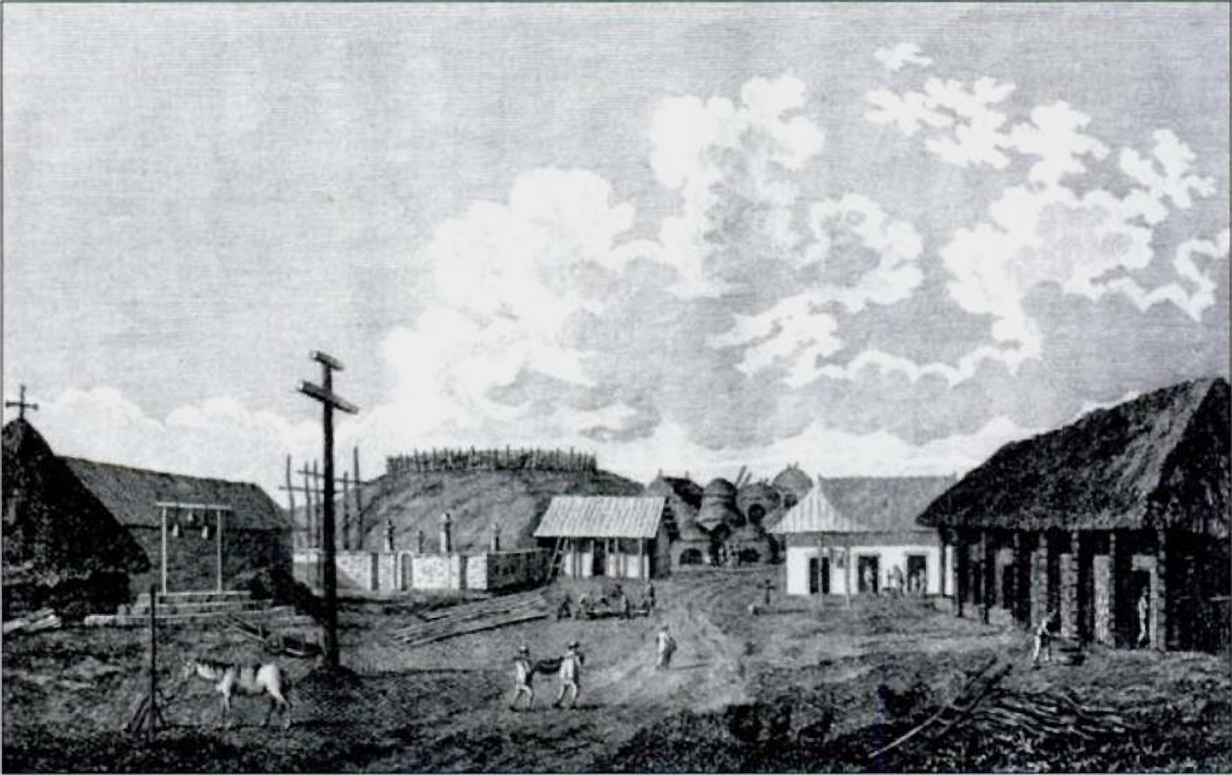 Sketch of the early Carmel California settlement as depicted by John Sykes in 1794